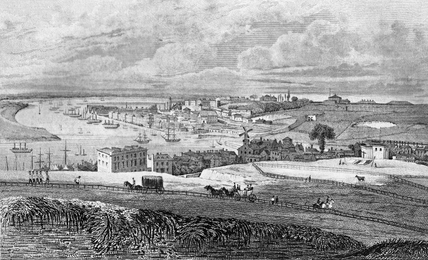 Engraving of "Chatham Dockyard from Fort Pitt" from Ireland's History of Kent, Vol. 4, 1831. It appears between pages 348 and 349. Drawn by G. Sheppard, engraved by R. Roffe. [This view is taken looking northwards down the River Medway (Chatham Reach) towards the estuary. Chatham Dockyard is on right hand bank of the river. To the right of the dockyard, the elevated area is known as the Great Lines, or Chatham Lines. The built up area sunk between the Lines and the hill from which the view is taken, consists of the town of Chatham on the right, merging into the town of Rochester to the left. The spur of land from the left is Frindsbury. (Note by User:JackyR)] (Note by User:ClemRutter)